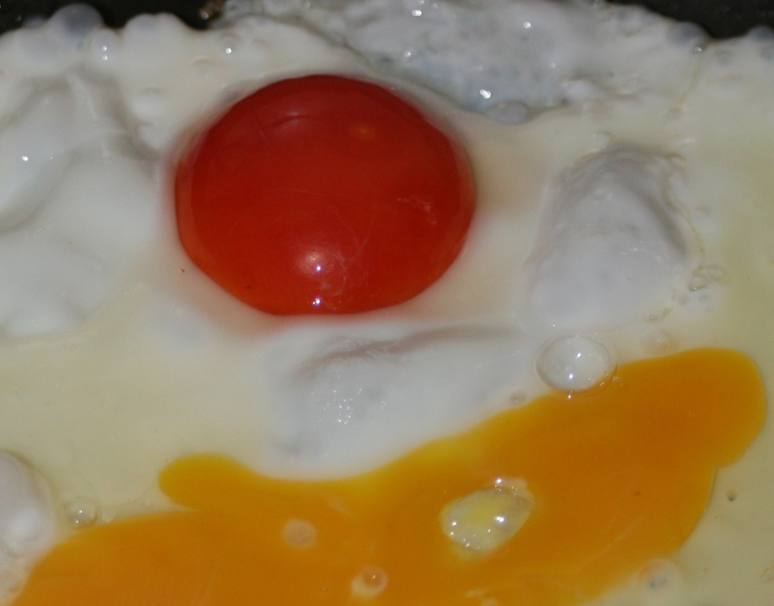 A chicken egg with a Red Yolk, Frying in a pan. A broken, normal orange yolked egg below it, for colour comparison. When I broke the yolk, it was extremely (and unpleasantly) thick and gelatinous...needless to say I didn't eat it...